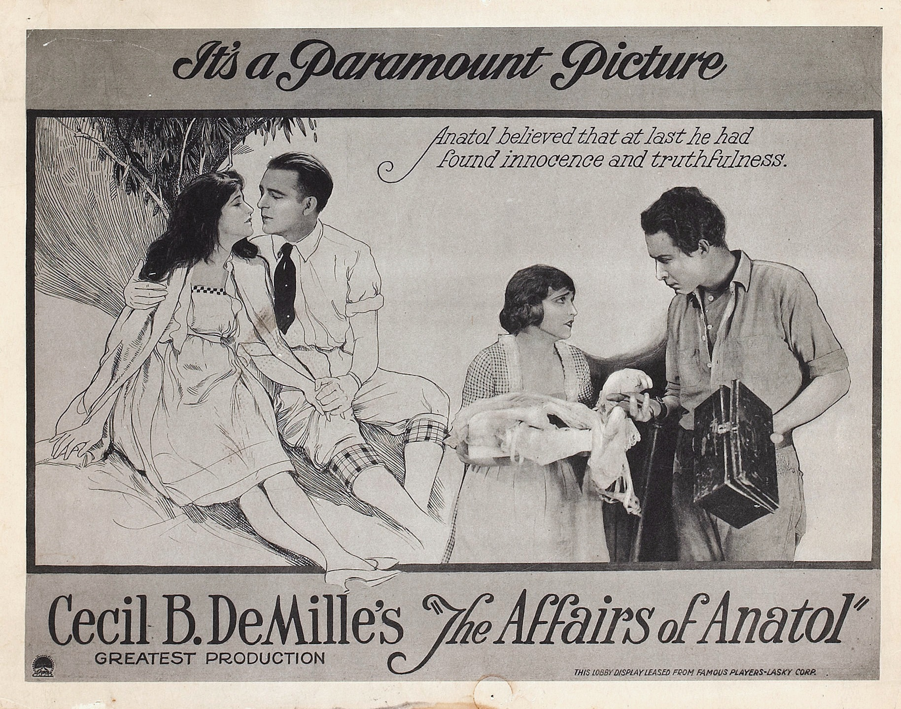 The Affairs of Anatol is a 1921 American silent comedy-drama film directed by Cecil B. DeMille, and starring Wallace Reid and Gloria Swanson. This is a lobby card poster for the film.